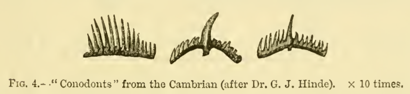 Conodonts from the Cambrian (after G. J. Hinde). X 10 times.